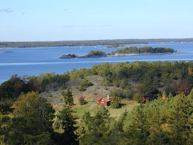 The swedish island Fjärdlång.